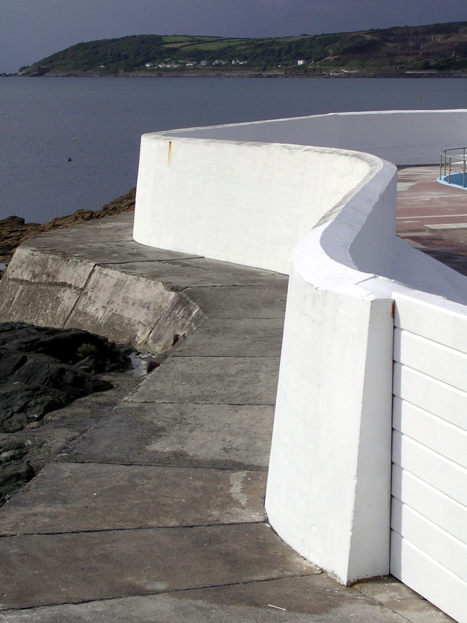 The eastern wall of Jubilee Pool, Battery Rocks, Penzance, Cornwall, U.K.